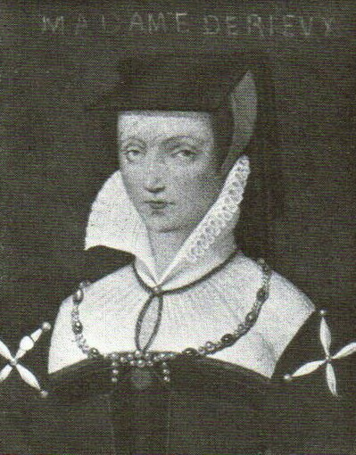 Portrait of Renée de Rieux (Lover of Henri III of France).